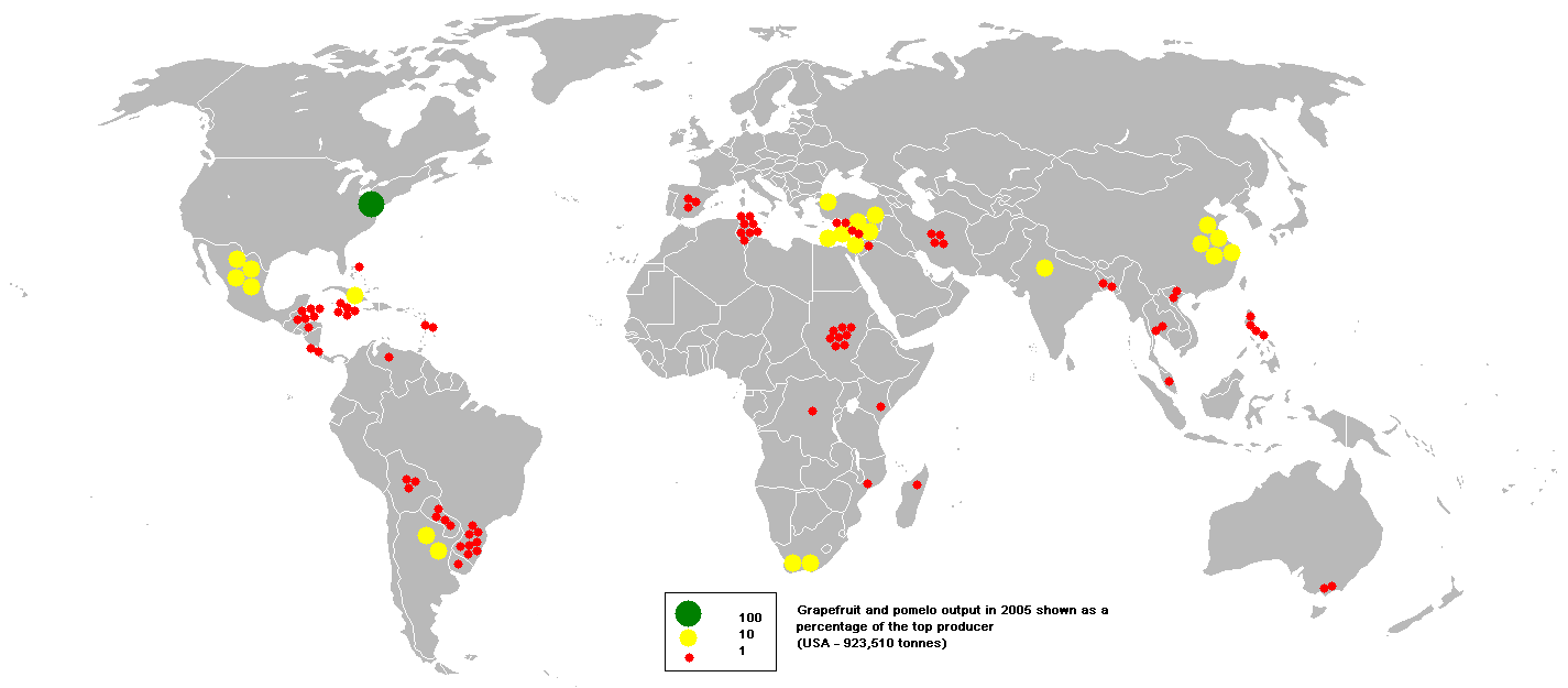 This bubble map shows the global distribution of grapefruit and pomelo output in 2005 as a percentage of the top producer (USA - 923,510 tonnes). This map is consistent with incomplete set of data too as long as the top producer is known. It resolves the accessibility issues faced by colour-coded maps that may not be properly rendered in old computer screens. Data was extracted on 18th June 2007 from Based on :Image:BlankMap-World.png